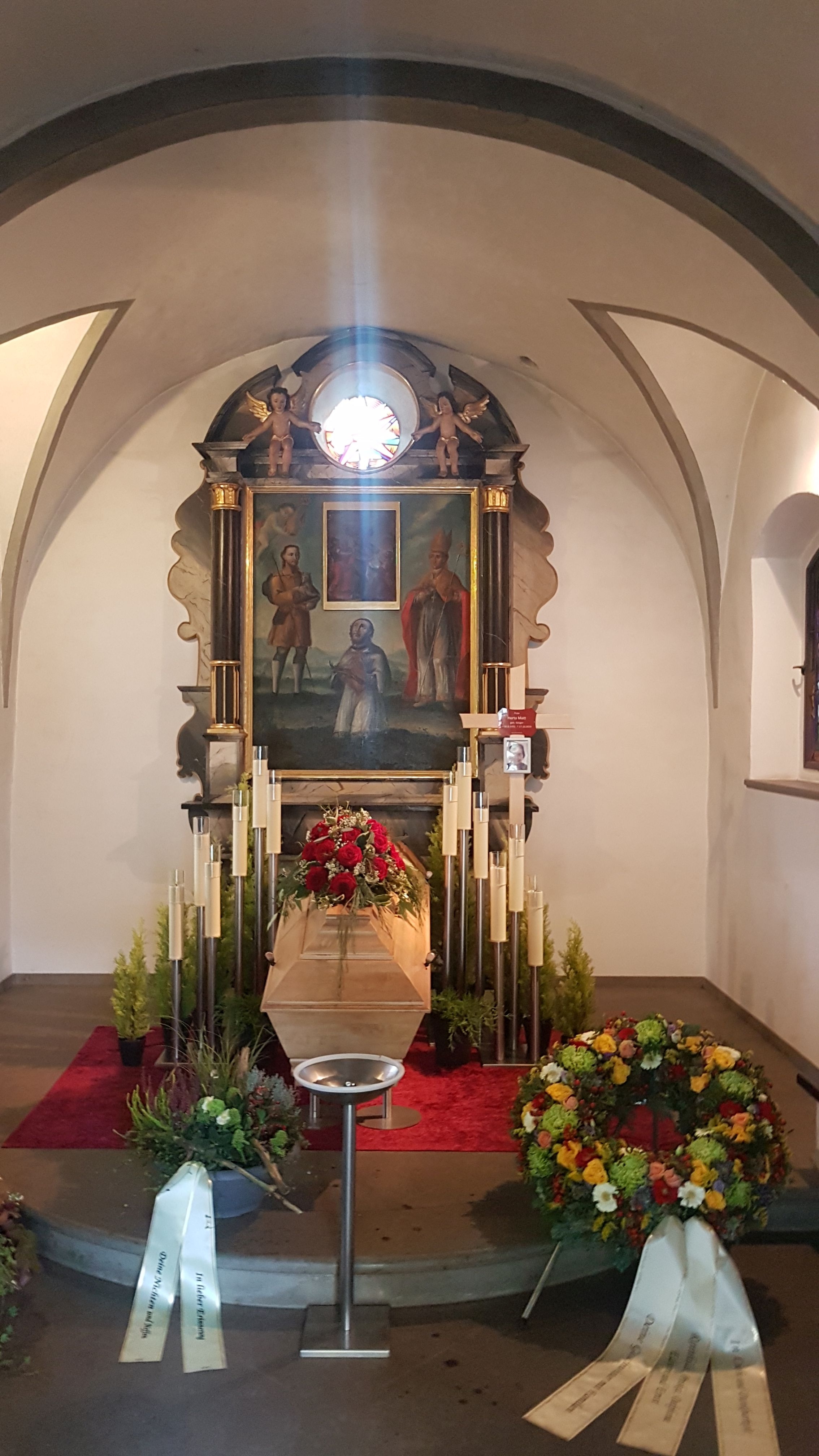 The chapel Sankt Wendelin in Frastanz (Vorarlberg, Austria) is used as a "chapel of rest". The 15th century chapel was renewed after the Battle of Frastanz. In a facade niche is a figure hl. Johann Nepomuk from the 18th century. Glass painting by Martin Häusle from 1963. Altar.